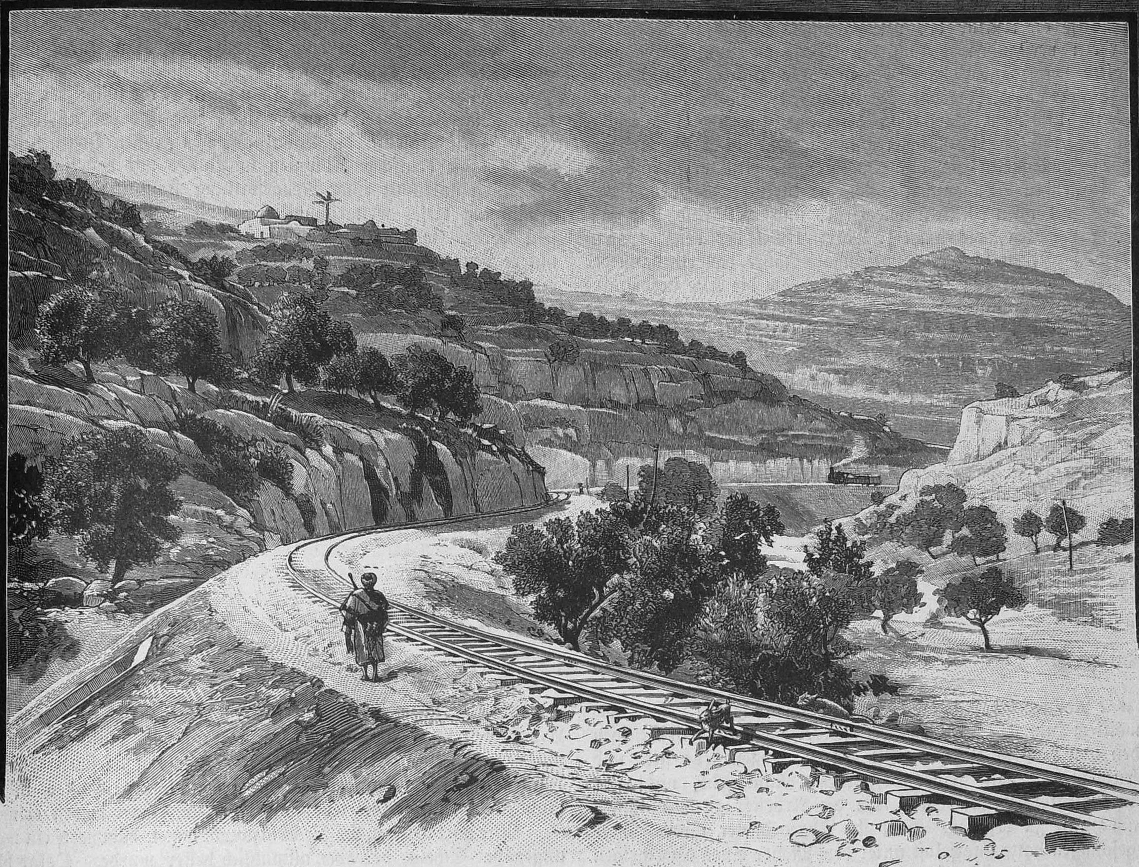 caption: "Landschaft an der Bahnlinie von Jaffa nach Jerusalem."